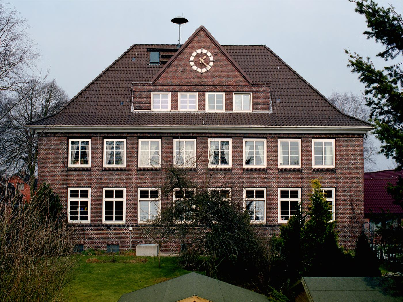 Borstel-Hohenraden (Schleswig-Holstein, Germany), schoolbuilding, photo: 1994